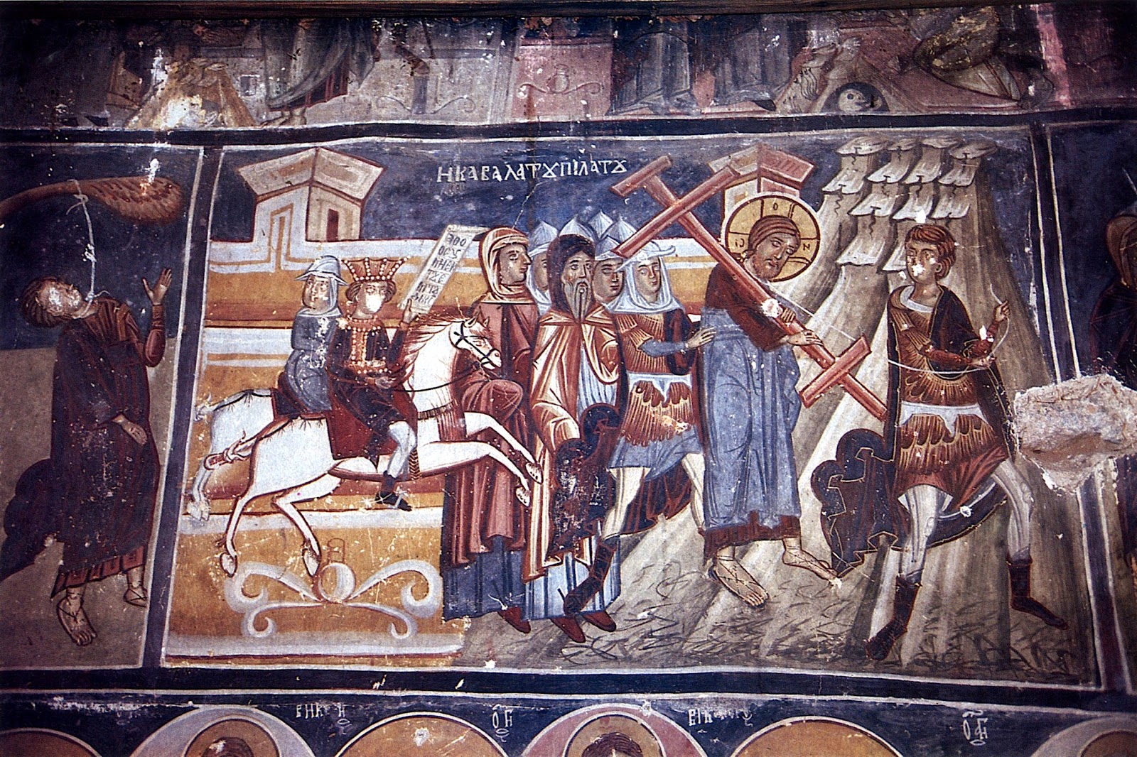 Saint Nicholas Church in Platy Shtarbovo Fresco, 1591